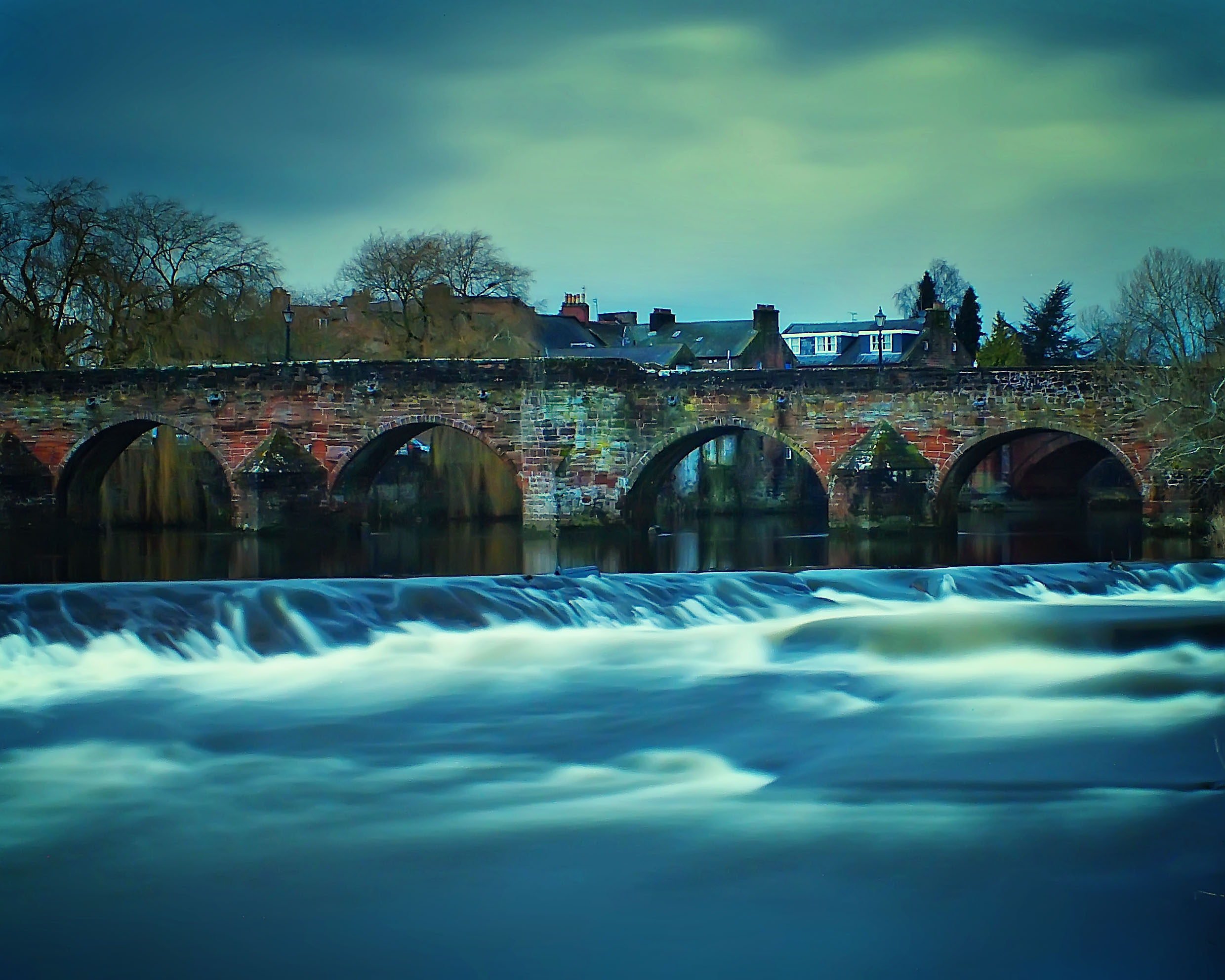 Dumfries, Old Bridge Wikidata has entry Q17570328 with data related to this item. This file was uploaded as part of the Dumfries Stonecarving Project in Dumfries, Scotland, UK. This tag does not indicate the copyright status of the attached work. A normal copyright tag is still required. See Commons:Licensing.